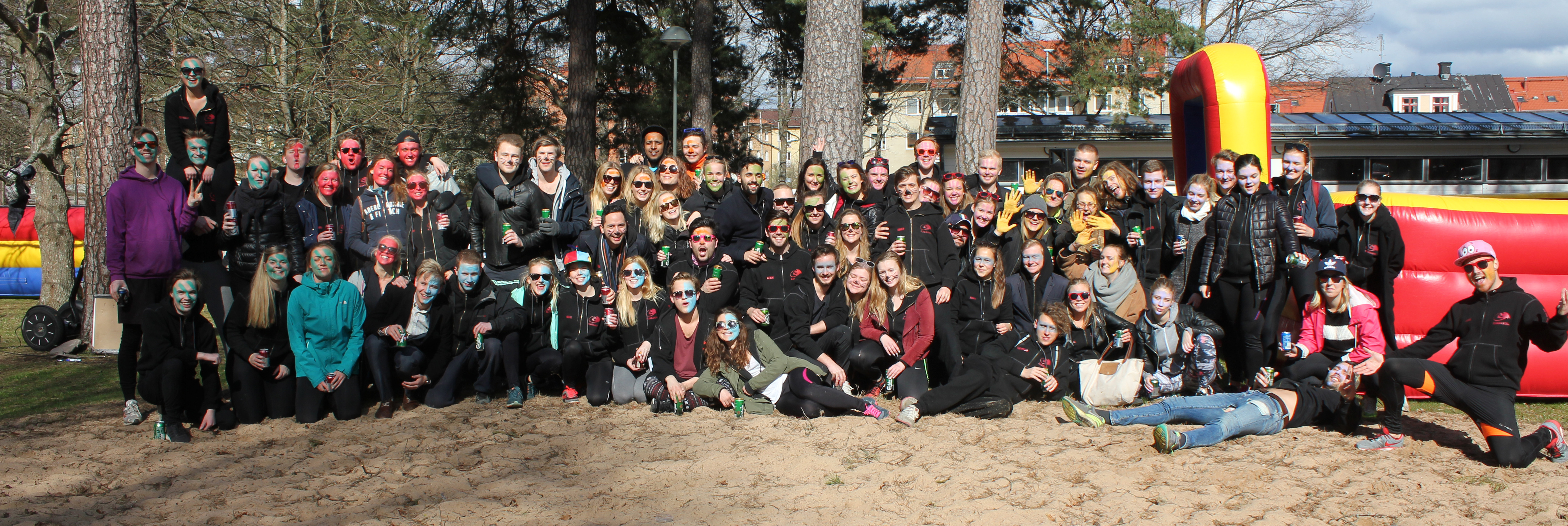 People who work at Flamman Pub & Disco